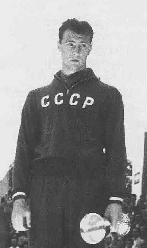 Viktor Polevoy at the 1958 Europeans